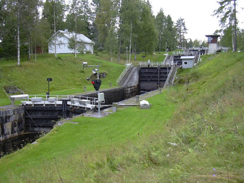 Canal locks of Varistaipale Canal in Heinävesi, Finland.